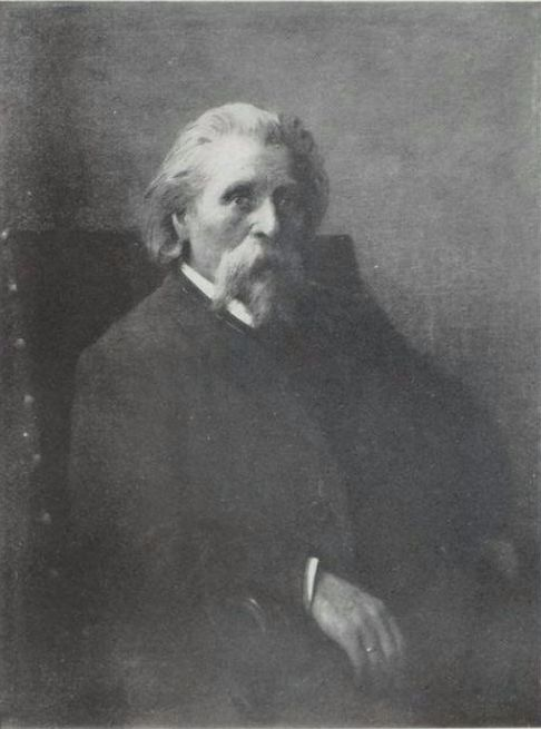 Jan Striening